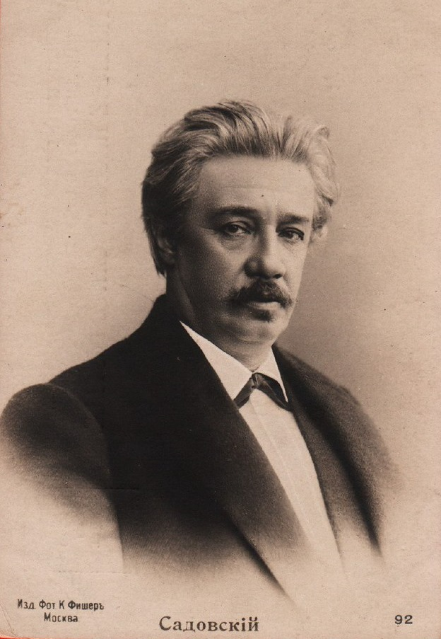 Mikhail Provich Sadovskiy (1847—1910) Russian actor